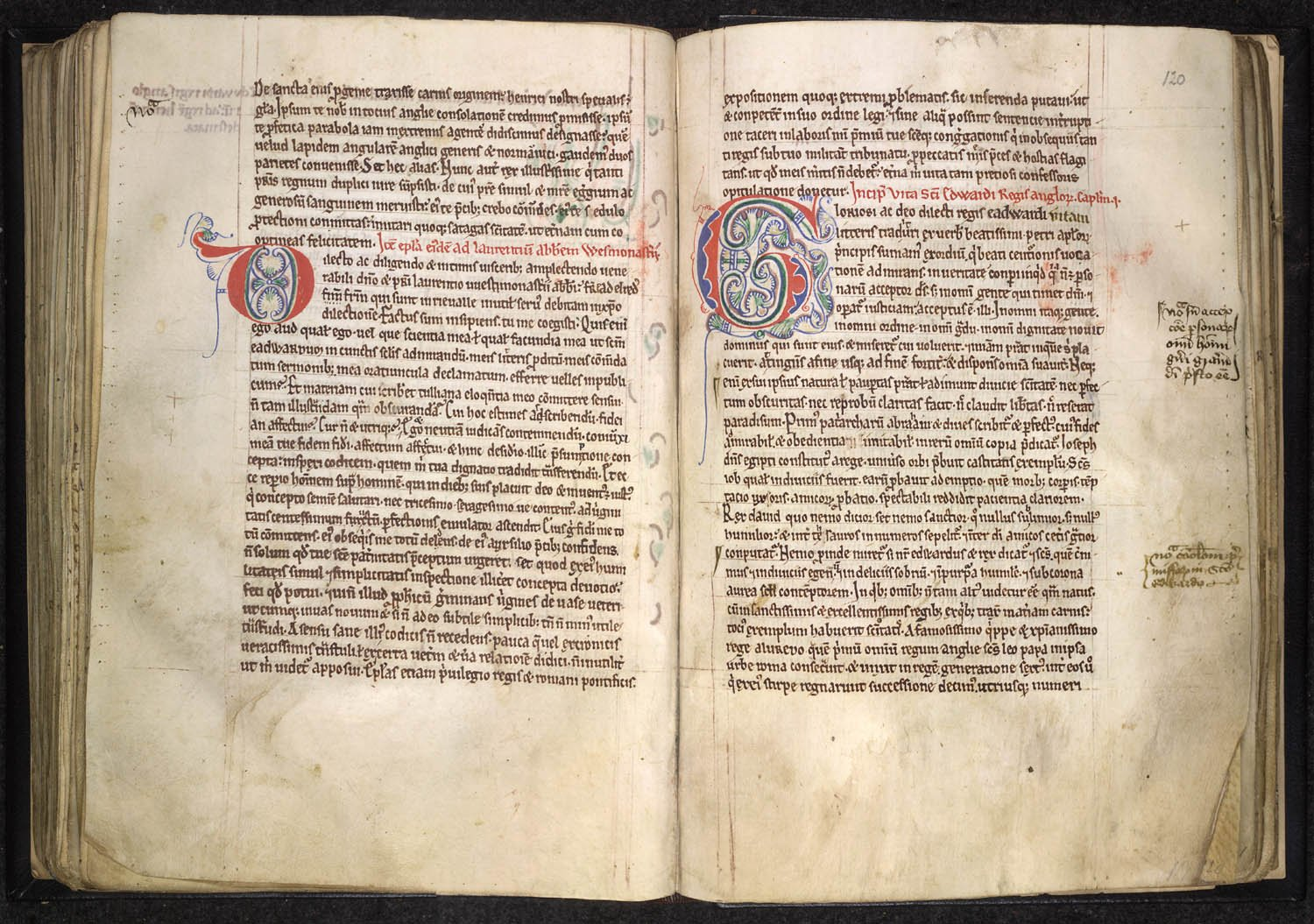 Pages from an illuminated mansucript of Vita S. Eduardi, regis et confessoris (Life of Edward the Confessor) by Aelred of Rievaulx